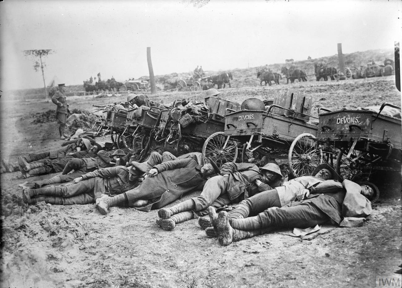 The Battle of the Somme, July-november 1916 Lewis gun section of the 8th Battalion, Devonshire Regiment resting after an attack near Fricourt, August 1916.